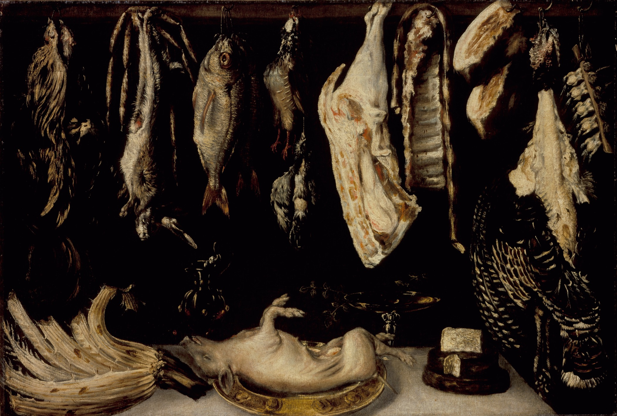 Italy, Florence, circa 1625 Paintings Oil on canvas Gift of Mrs. Maria F.K. Fliermans, in Memory of Constantinus Lucas Fliermans, Jr. (49.11.2) European Painting Currently on public view: Ahmanson Building, floor 3